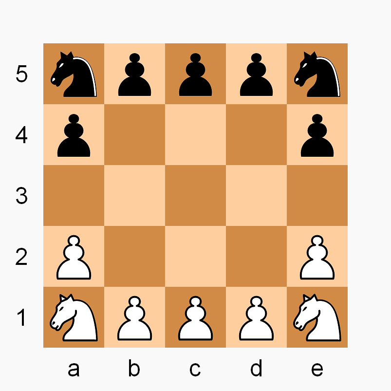 Apocalypse (chess variant) board and starting position. Using the great free-use chess icons fashioned by David Benbennick (User:Dbenbenn). All done in MSPAINT.